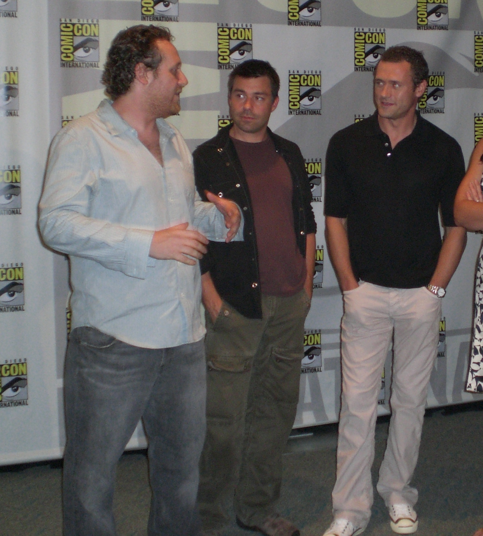 Life on Mars cast